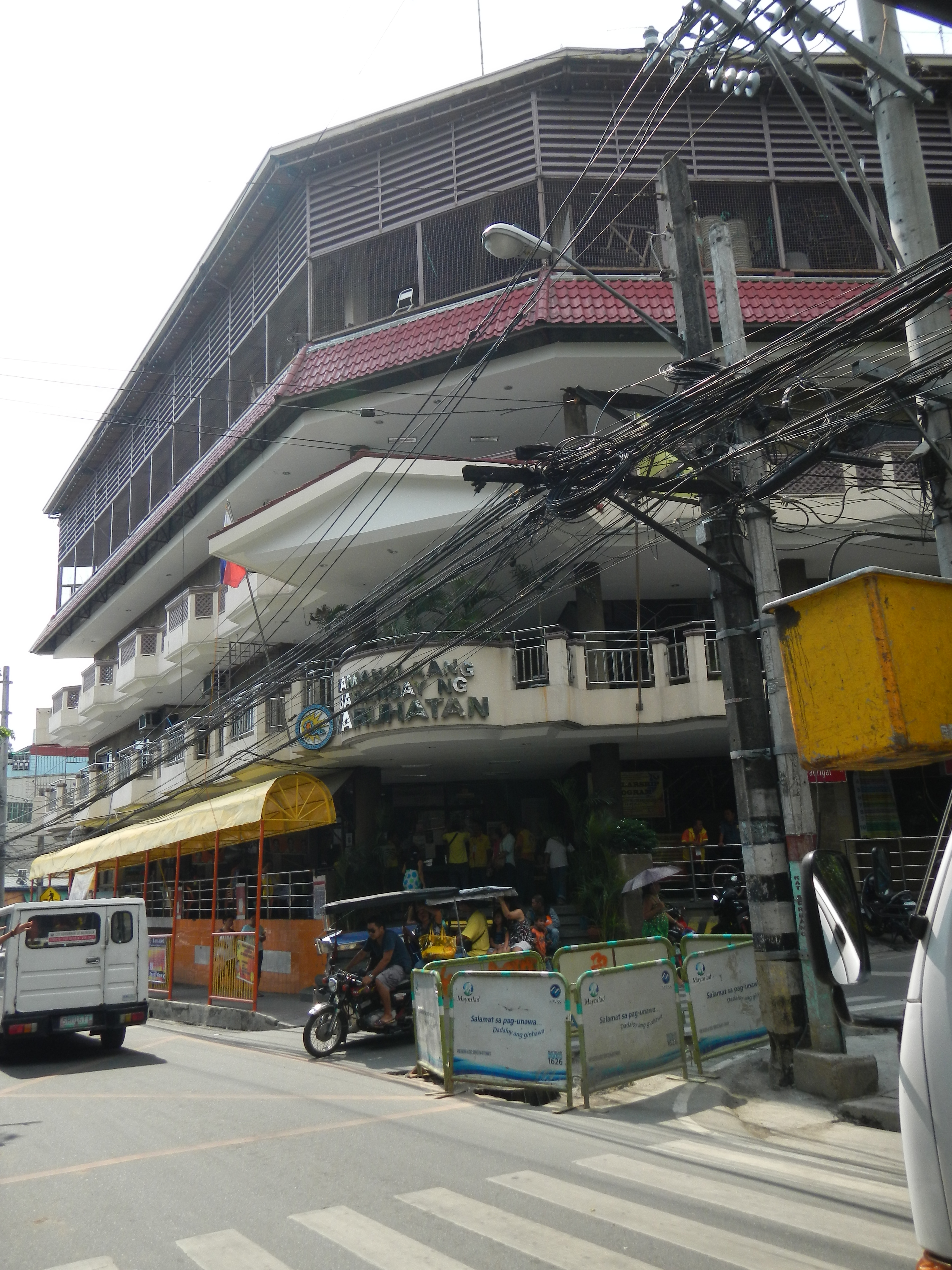 From Valenzuela City General Hospital, beside the Hall of Barangay Karuhatan, Valenzuela Valenzuela City, is the Welcome painted wall sign of Barangay Gen. T. de Leon, Valenzuela City: Centro or Barangay Proper: landmark is the Gen. T. de Leon National High School, Mercado St. cor. Gen. T. de Leon Rd., Barangay Gen. T. de Leon, Valenzuela City, Metro Manila, 1442 Philippines, named after Tiburcio de León General Aquilino Tiburcio de León y Gregorio Tolomeo).